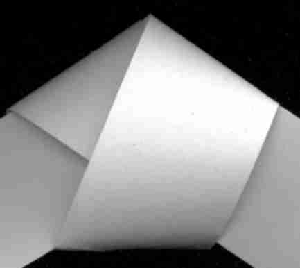 knot of a paperstrip